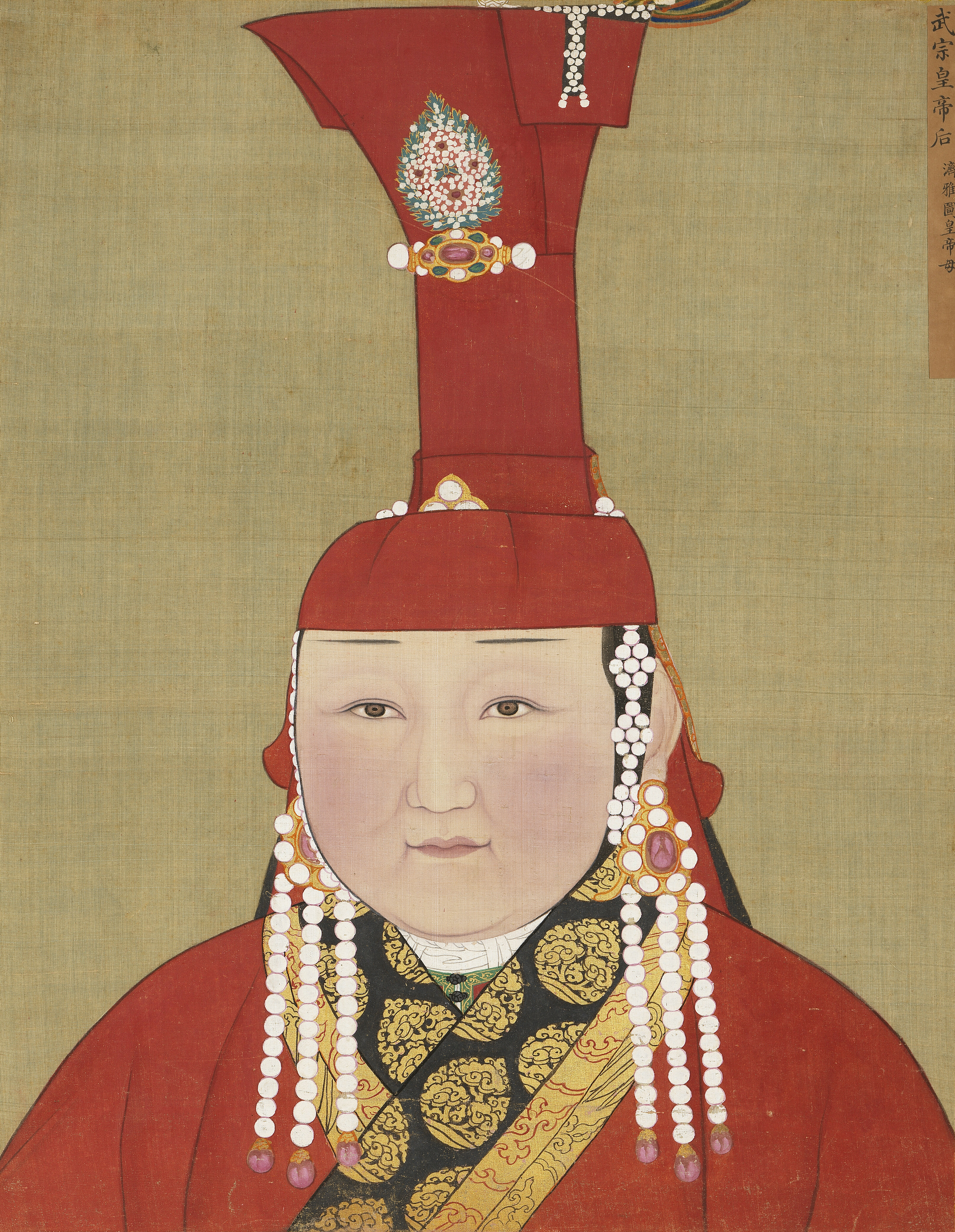 Jiyatu, wife of Qaishan (a.k.a. Wuzong). Paint and ink on silk. Portrait cropped out of a page from an album depicting several consorts of Yuan emperors (Yuandai dihou banshenxiang), now located in the National Palace Museum in Taipei (inv. nr. zhonghua 000325). Original size is 48 cm wide and 61.5 cm high. For the full page, see Image:YuanEmpressAlbumJiyatuAndAWifeOfAyurbarvada.jpg. Note: The description in the source (Dschingis Khan und seine Erben) at p. 303 seems to confuse Image:YuanEmpressAlbumJiyatuAndAWifeOfAyurbarvada.jpg and Image:YuanEmpressAlbumTwoWivesOfQaishan.jpg. I have tried to follow the Chinese captions on the respective portraits, not the description in Dschingis Khan und seine Erben. Some rows or columns of pixels near the margins of the pic may have been manipulated by me (Yaan) for optics. For an unaltered (except cropping) version, see the image at Image:YuanEmpressAlbumJiyatuAndAWifeOfAyurbarvada.jpg.